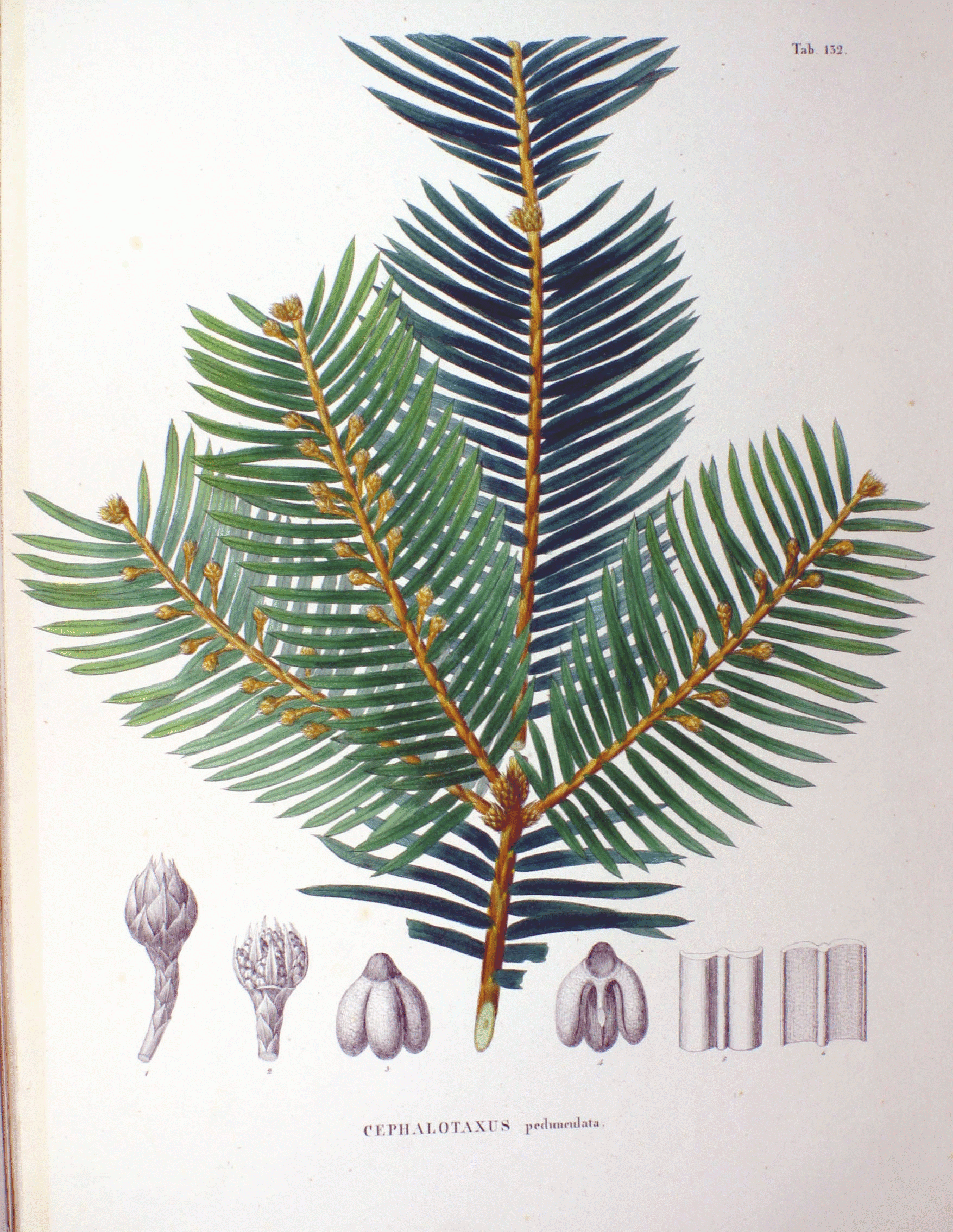 Plate of Cephalotaxus harringtonii (syn. C. pedunculata) from book